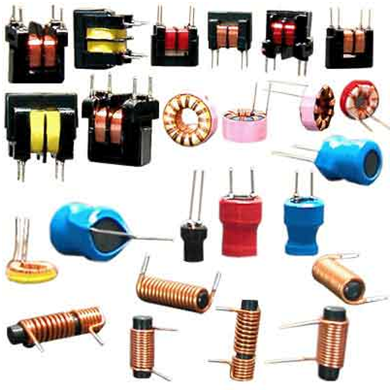 Examples of small ferrite core inductors and transformers. These have a ferrite magnetic core to increase the inductance. Ferrite is a ferrimagnetic substance which is used in high frequency inductors because it is nonconductive, so eddy currents which cause power losses cannot flow in it.